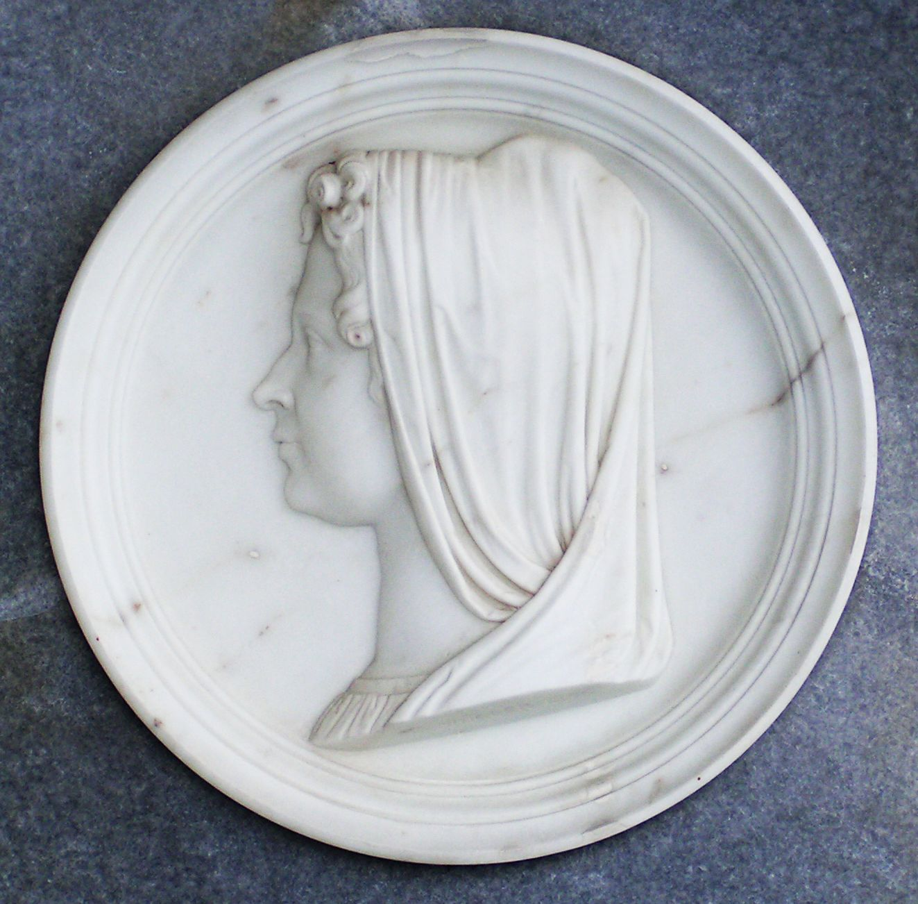 Friederike von Reden, Monument, Church Wang in Karpacz, Poland